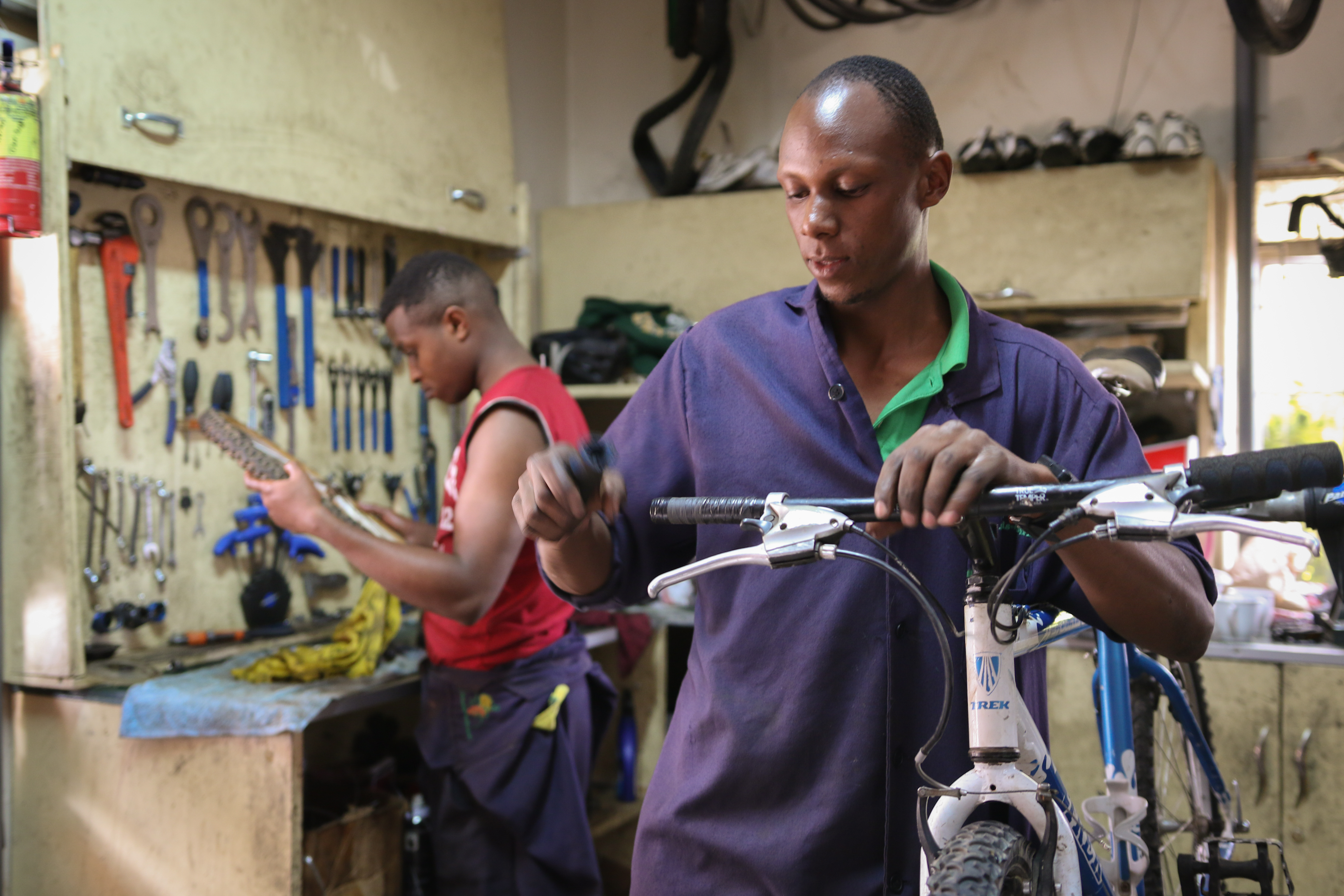 Bike repair at the Nairobi-based bike retail and repair 'Wheels of Africa'. This is an image of "African people at work" from Kenya